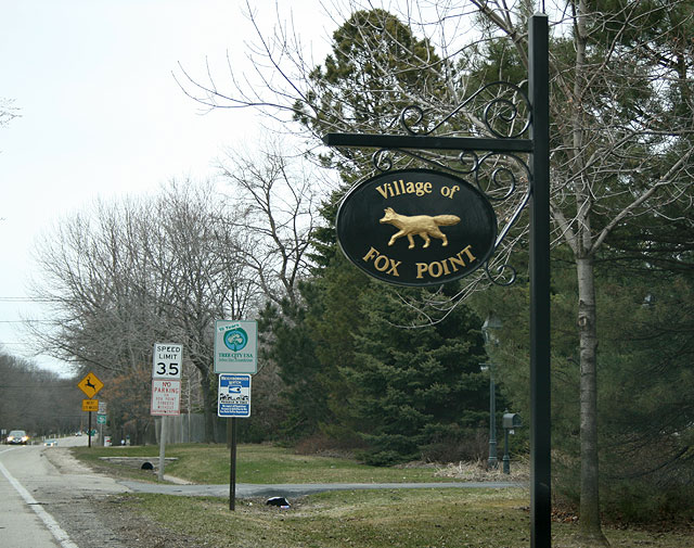 The entry to Fox Point on Lake Drive, looking north.